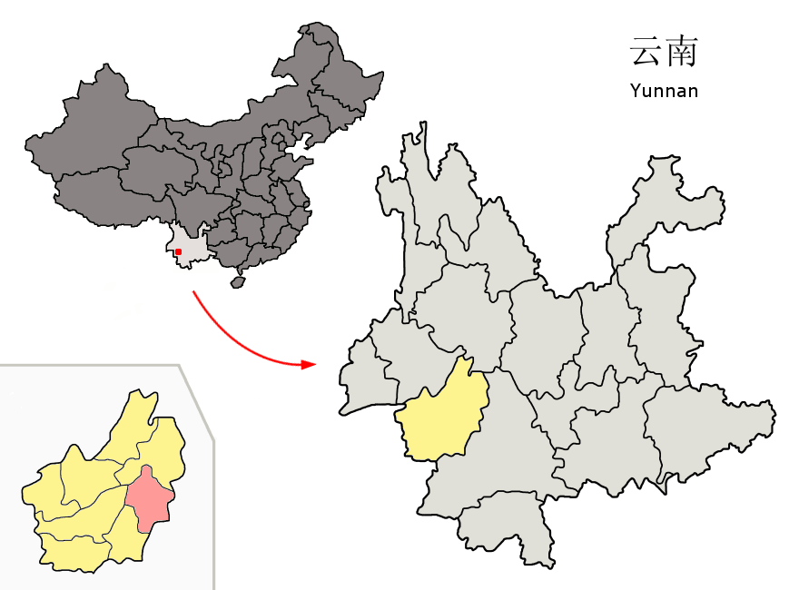 Location of Linxiang District (pink) and Lincang Prefecture (yellow) within Yunnan province of China Map drawn in september 2007 using various sources, mainly : Yunnan province administrative regions GIS data: 1:1M, County level, 1990 Yunnan Counties map from